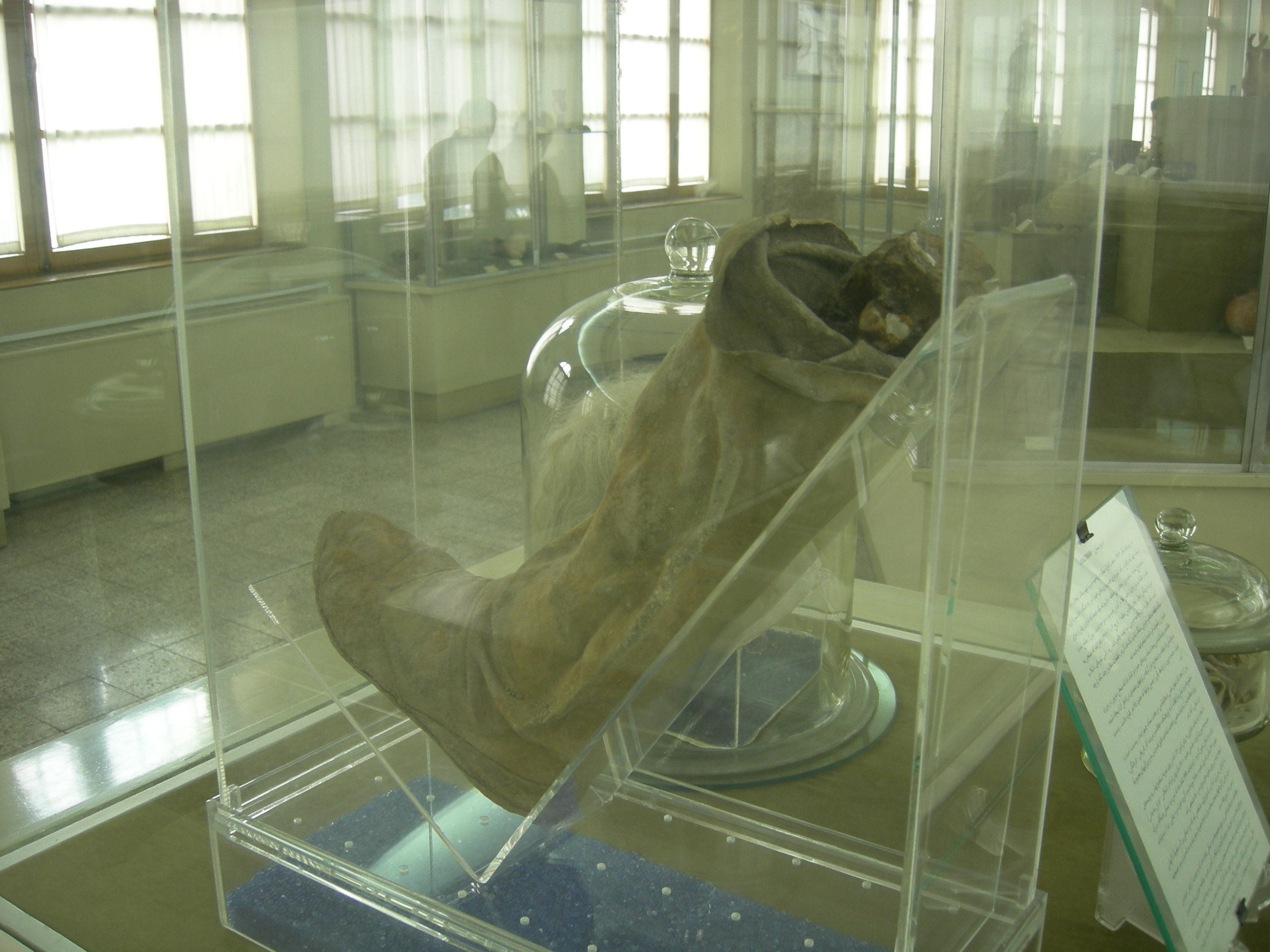 Left shoe and lower leg of Salt Man 1 on display at Iran Bastan Museum. One of the Saltmen found in 1994 in Douzlākh salt mines near Chehrābād, located on the southern part of the Hamzehlu village, on the west side of the city of Zanjan, Zanjan Province in Iran.